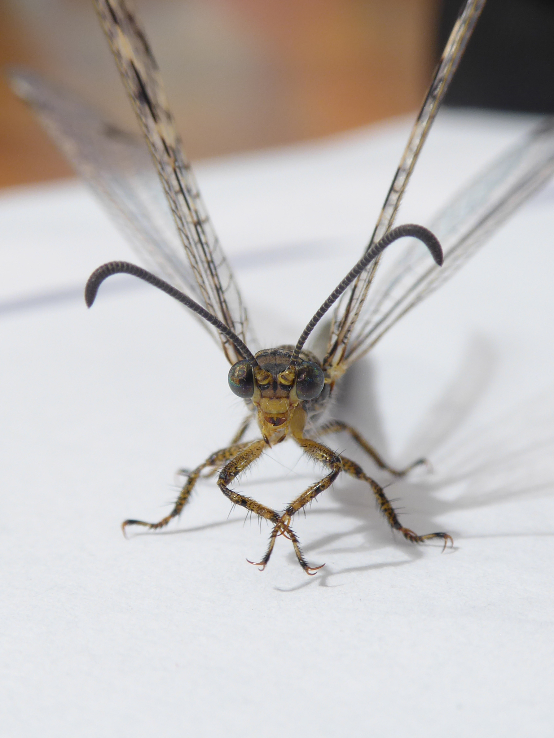 Female Distoleon tetragrammicus photographed in Piazzo (Segonzano, Trentino, Italy)